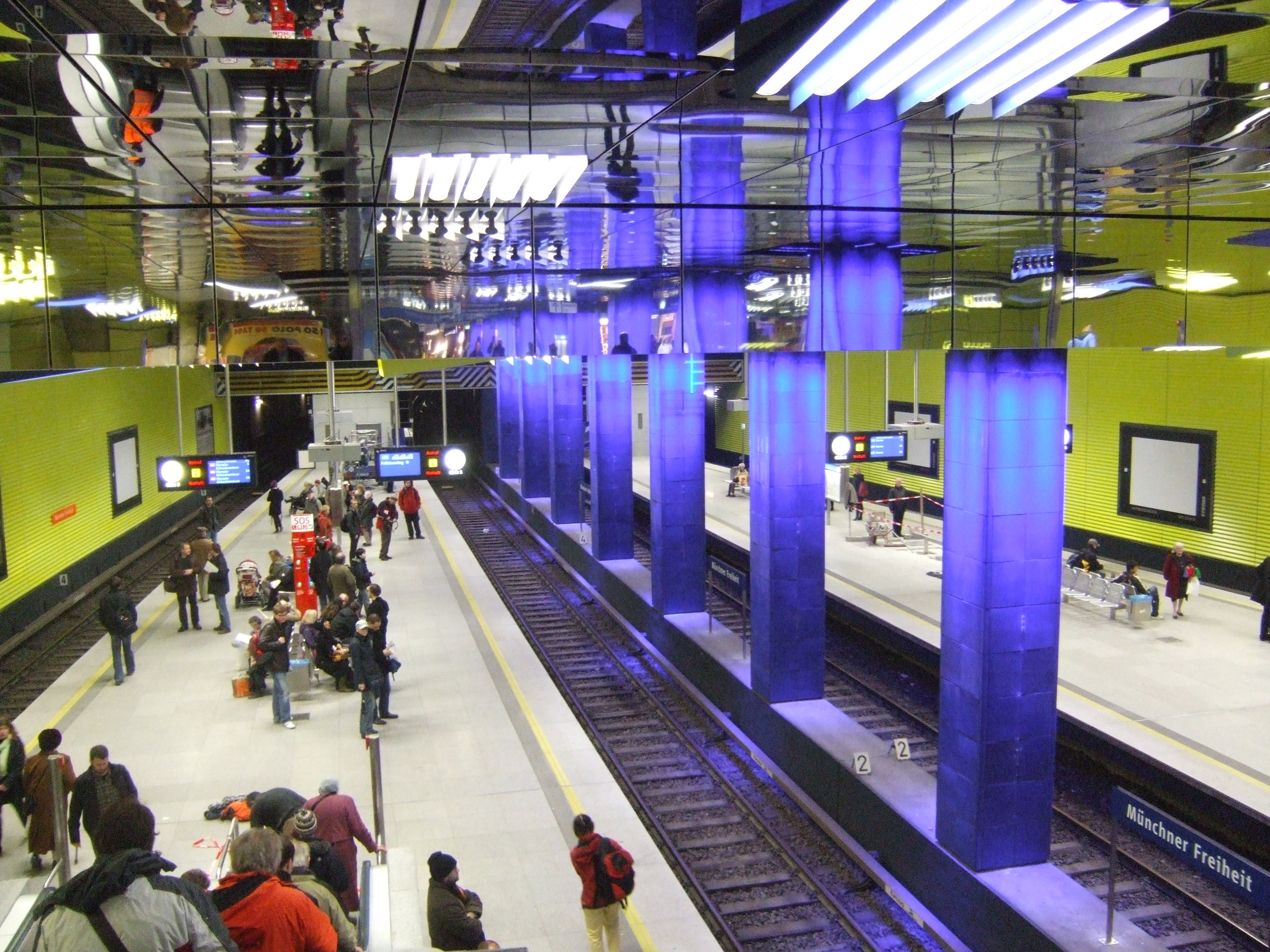 Munich subway station / underground station Münchner Freiheit (Dec. 2009)